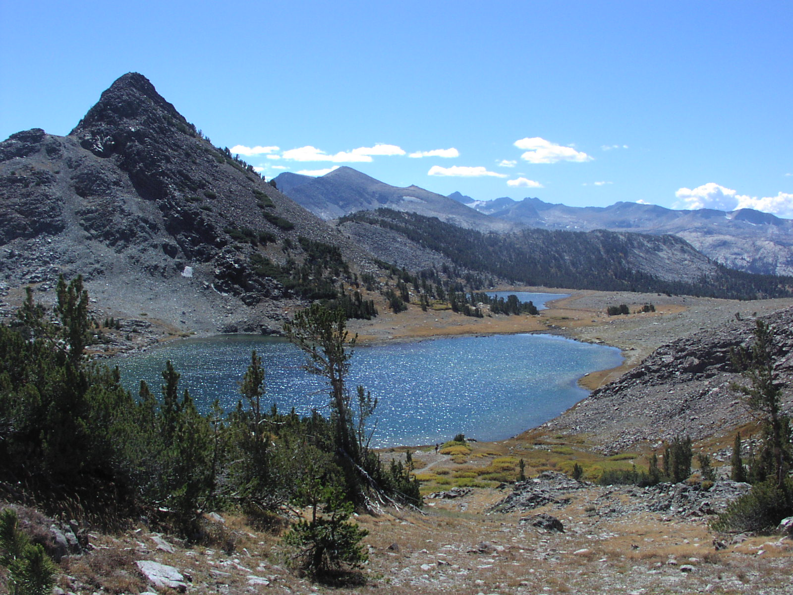 Gaylor Lakes, Yosemite National Park